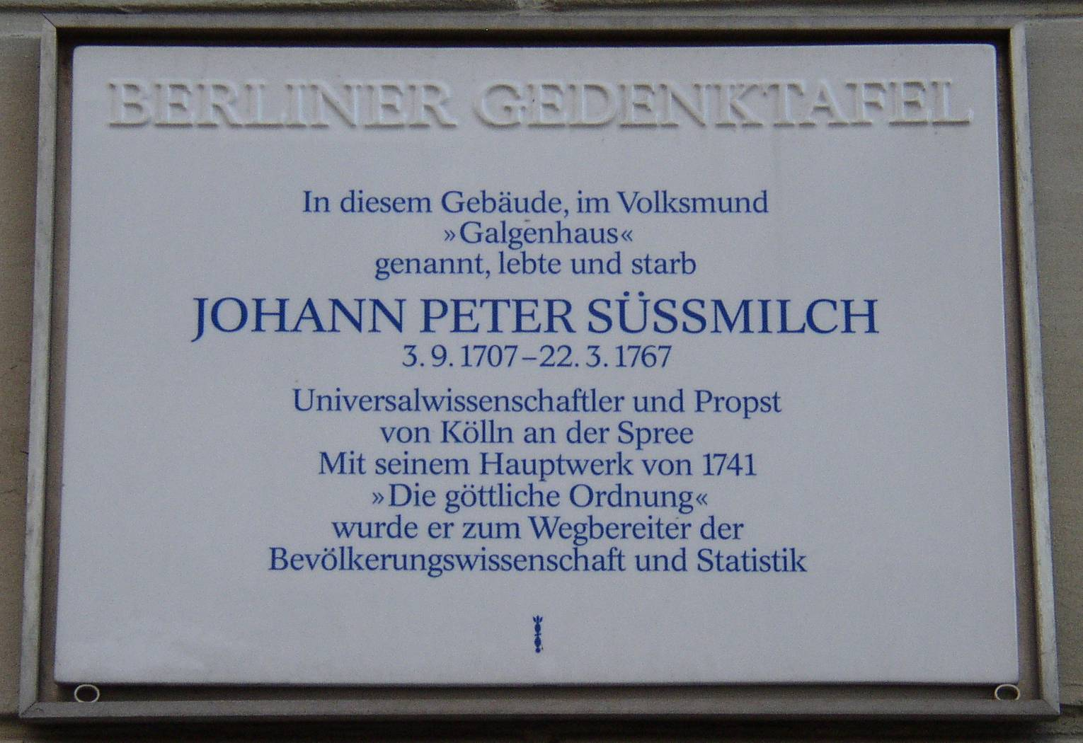 Berlin memorial plaque for Peter Süßmilch in Berlin-Mitte, Germany